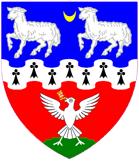 Shield of arms of The Lord Gainford